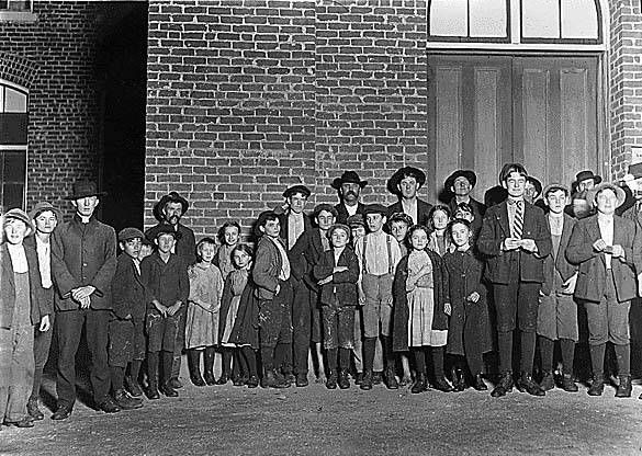 Original description: A few of the employees in the Clinton Mills, going home from work. Many others as small were in evidence. Supt. wouldn't allow me to take photos inside. Clinton, S.C., 12/02/1908. Photographed by Lewis Hine.